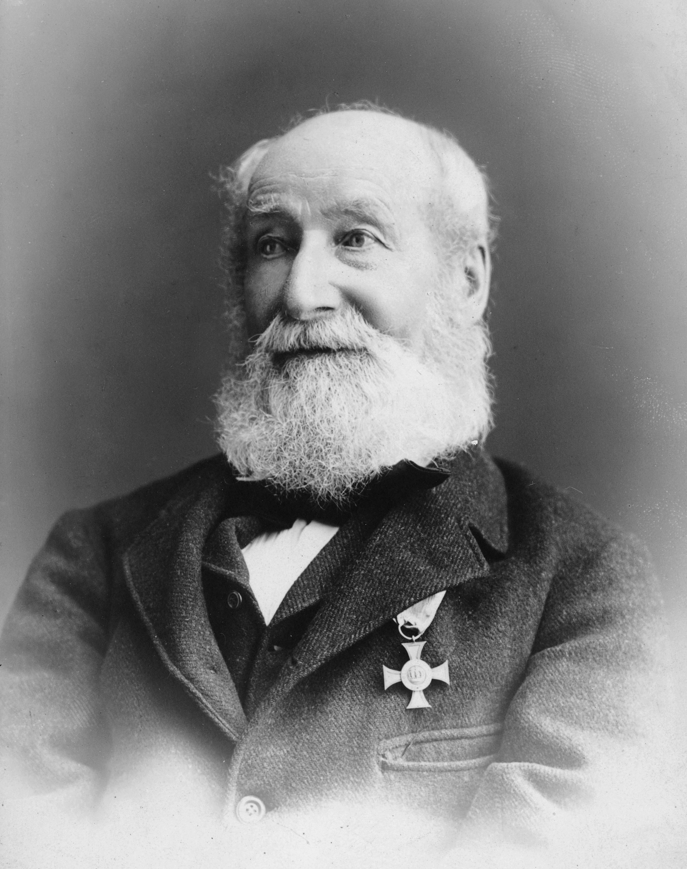 Johann Friederich August Kelling, [ca 1895]. Emigration agent, farmer, community leader, politician. Born 11 February 1820 in Klütz, Mecklenburg-Schwerin, Prussia; died 24 October 1909 in Nelson, New Zealand